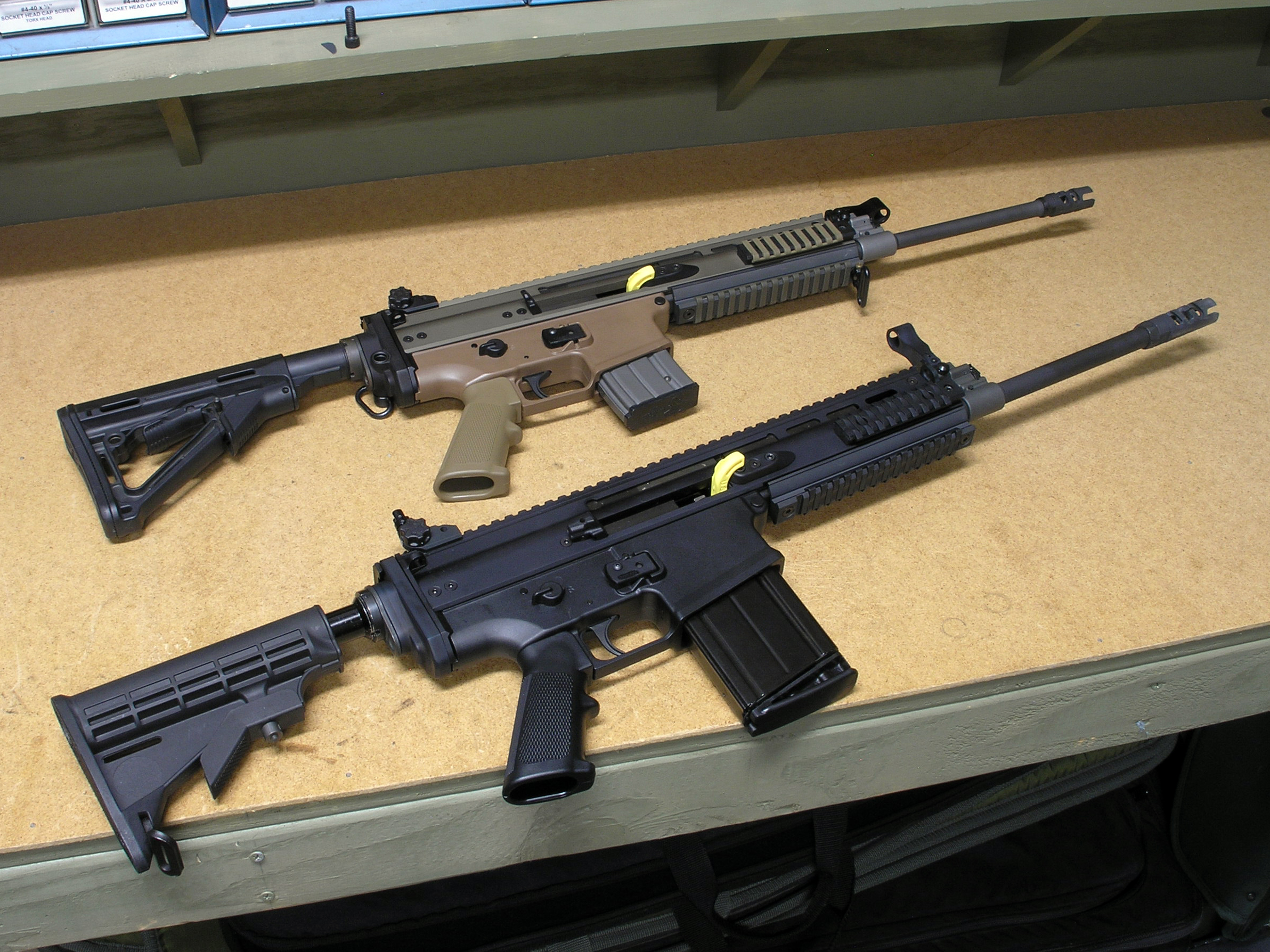 Just picked up my new FN SCAR 17s in 7.62x51 NATO (black, lower) and set it next to my FN SCAR 16s in 5.56x45 NATO (upper, in three shades of FDE). The buttstocks are experimental units, with a standard Mapgul MOE on Mama Bear and a hydraulic recoil absorbing stock on Papa Bear. The hydraulic stock was designed for 12 gauge shotguns, but I am eager to see what effect it has in taming the mighty 7.62 NATO cartridge. I will know in a week.